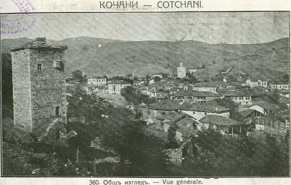 Kochani Medieval Tower Old